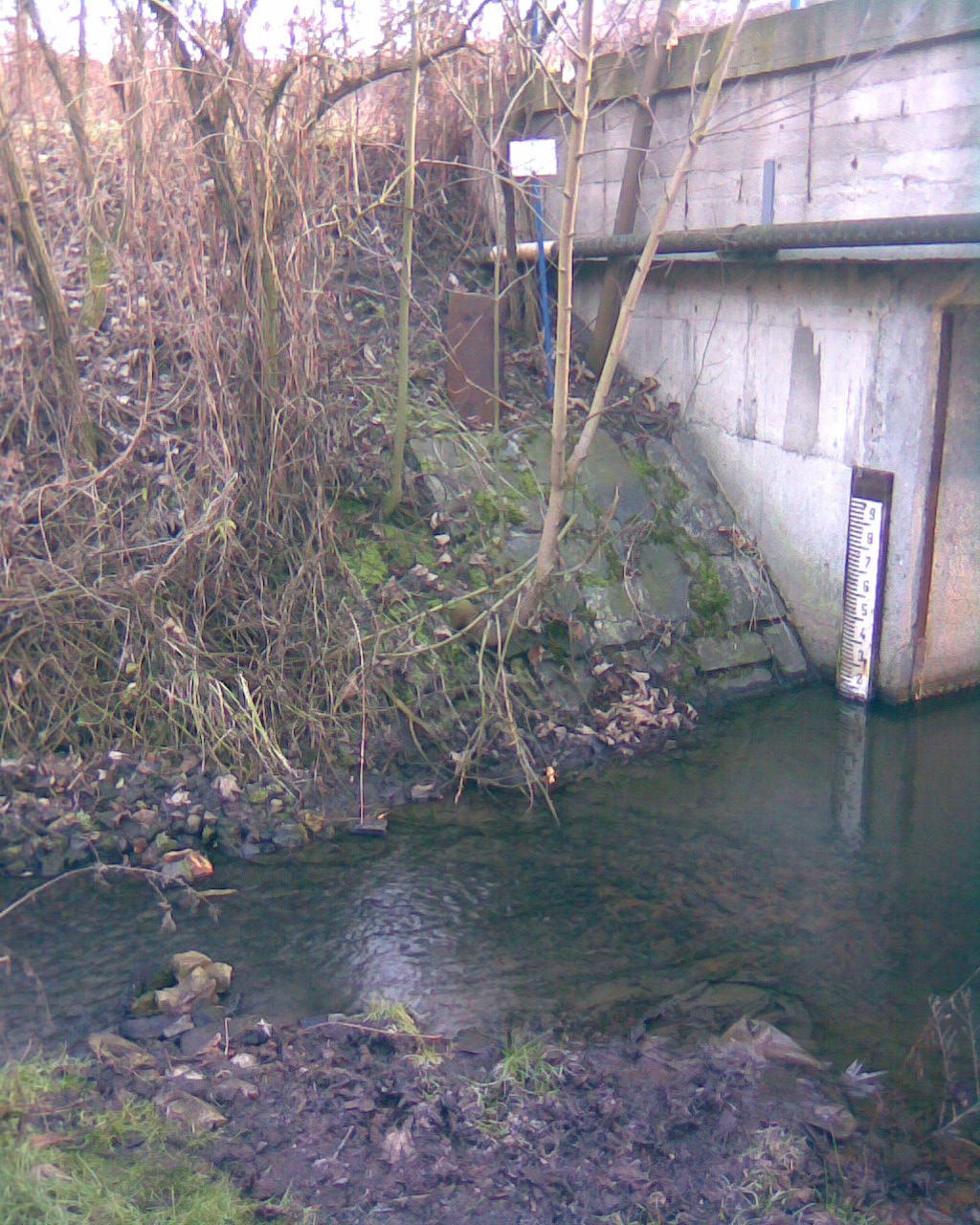 Mračný potok